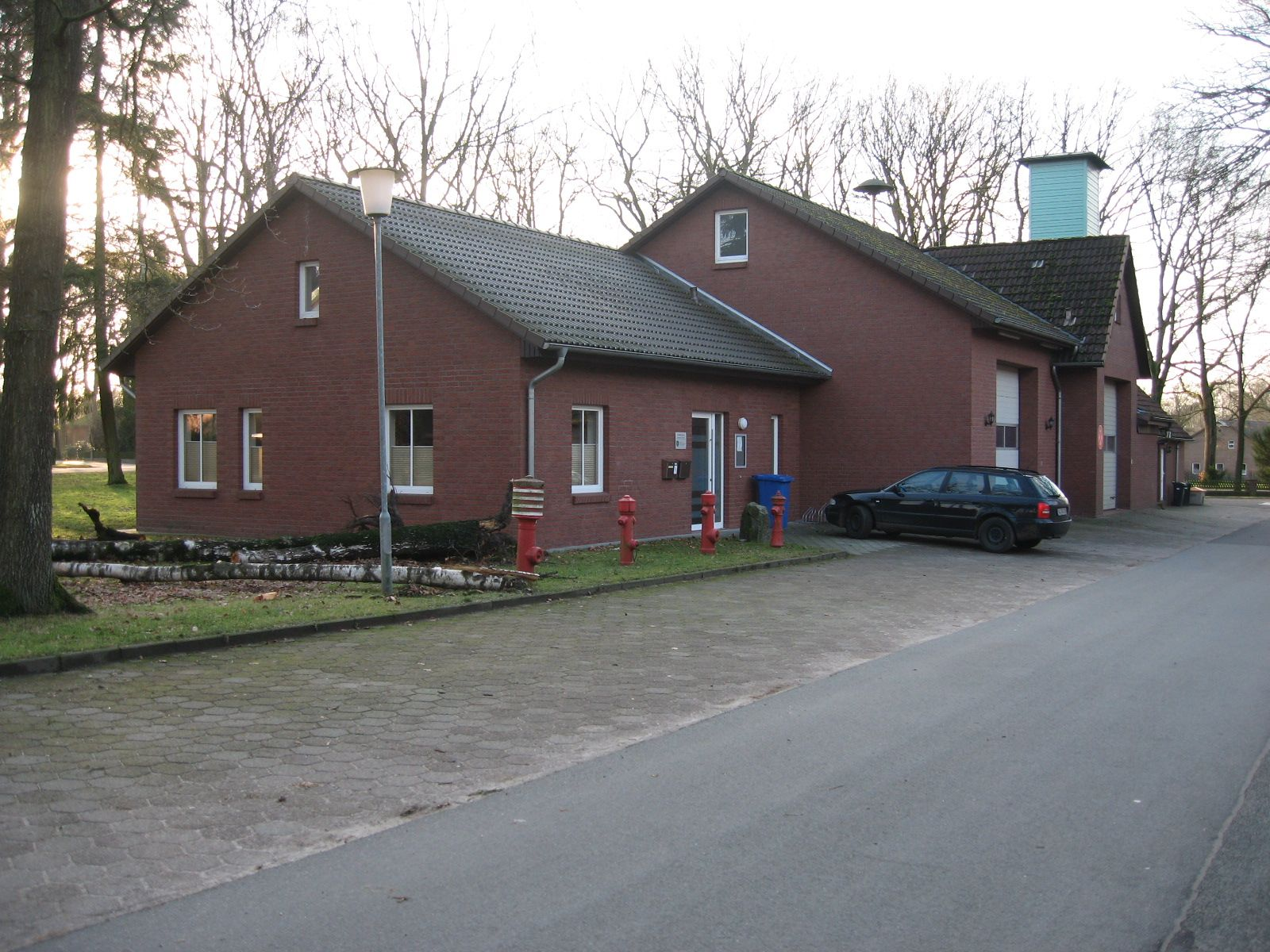 Dohren Firestation